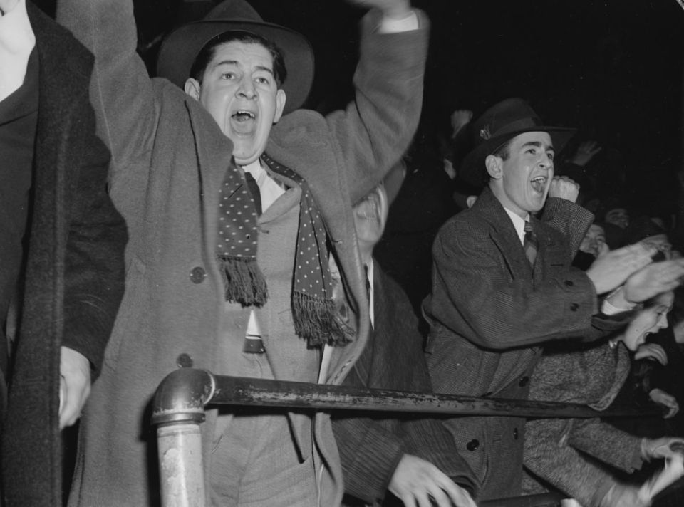 Supporters react enthusiastically hockey game between the Montreal Canadiens and the Detroit Red Wings.